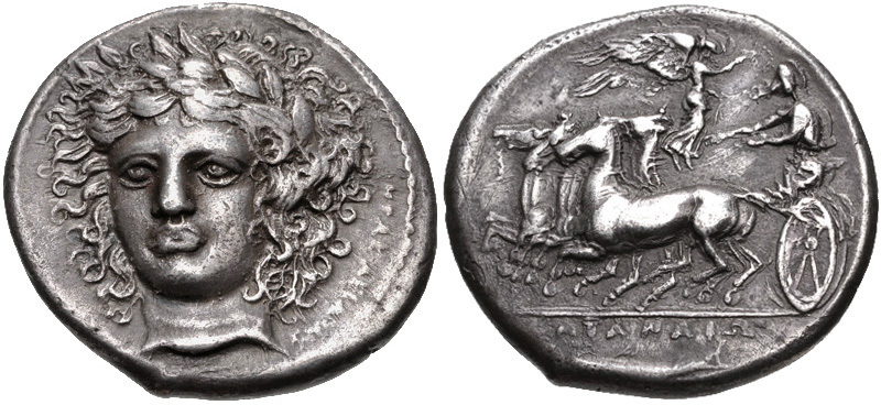 Sicily, Katane. Circa 405-403/2 BC. AR Tetradrachm (26mm, 16.99 g, 10h). Obverse die signed by Herakleidas. Head of Apollo facing slightly left, wearing laurel wreath; HPAKΛEIΔAΣ to right Charioteer, holding kentron in right hand, reins in left, driving fast quadriga left; above, Nike flying right, crowning charioteer with wreath; in exergue, KATANAIΩ[N] above fish left.